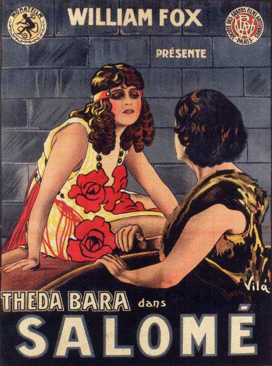 Poster of "Salome" (1918), lost movie with Theda Bara